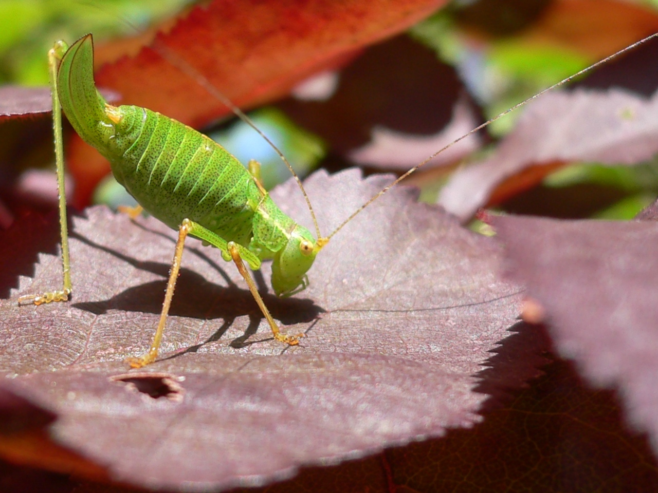 Berlin-Kreuzberg, Germany, Görlitzer Ufer, between Görlitzer Park and Landwehrkanal - female Leptophyes punctatissima; this animal has lost a leg